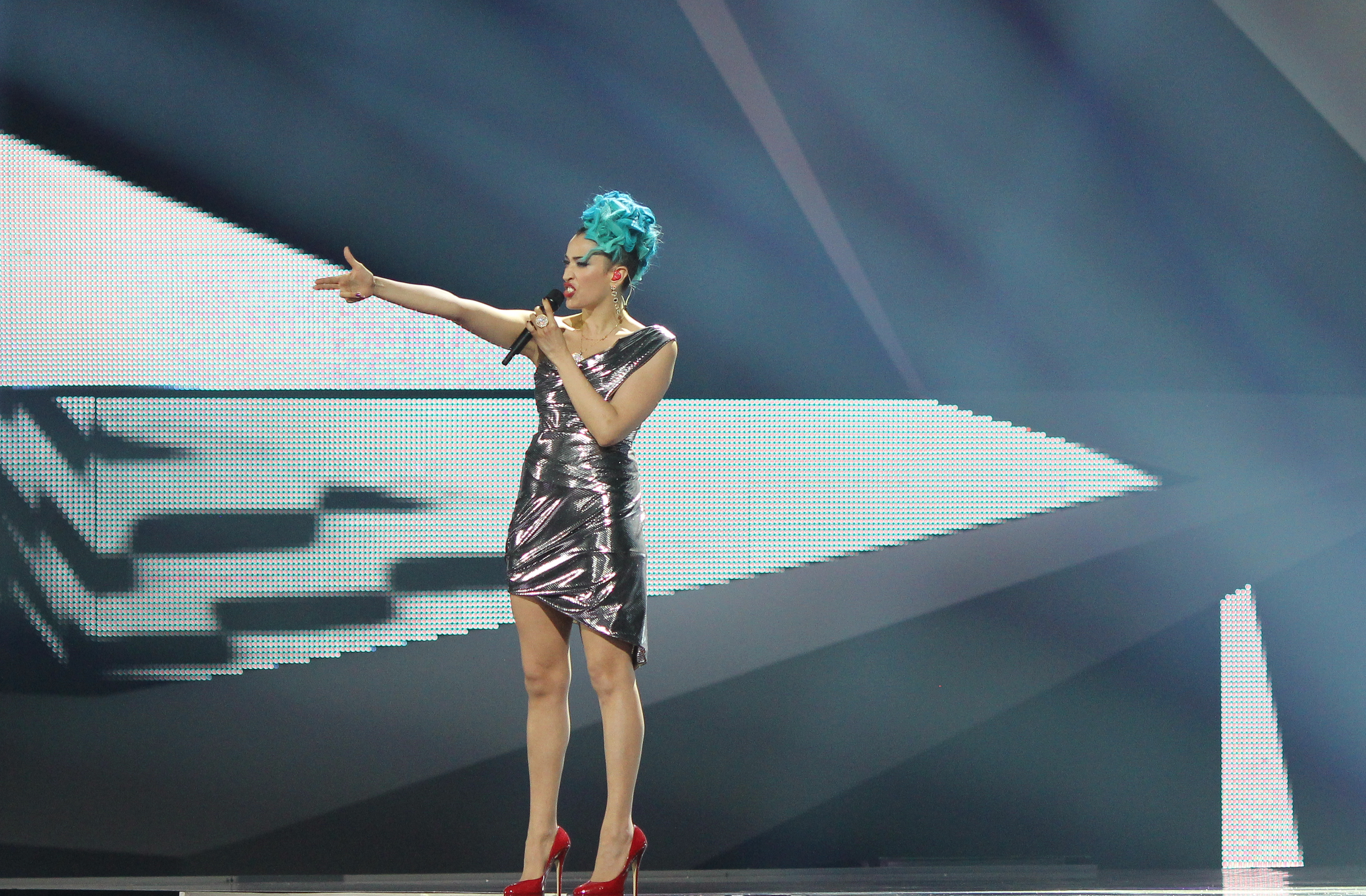 Italy's Nina Zilli performs during the dress rehearsal of the Grand Final of the Eurovision 2012 song contest in the Azerbaijan's capital Baku on May 25, 2012.